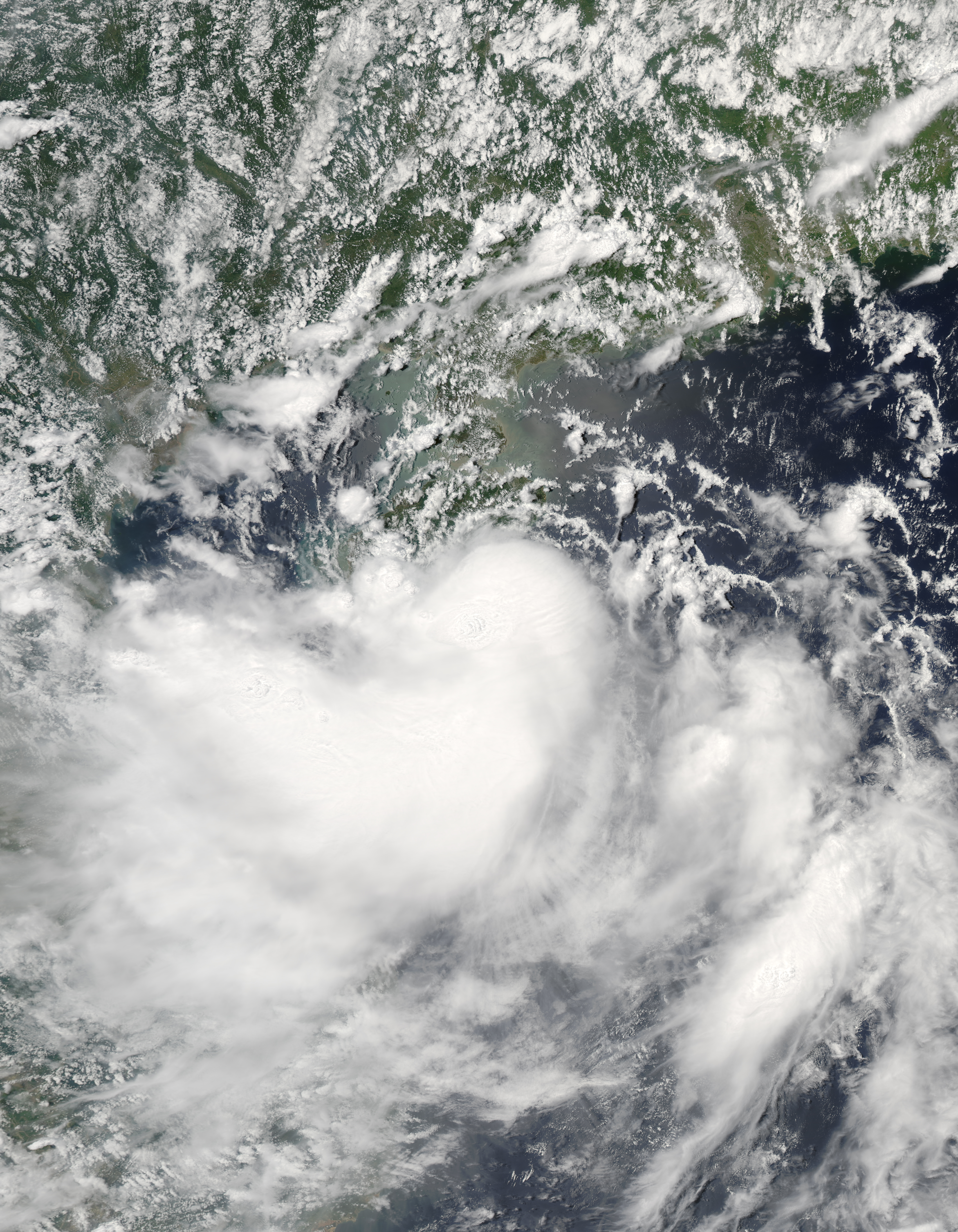 MODIS Aqua satellite image of Tropical Storm Toraji making landfall on Hainan on July 4, 2007.